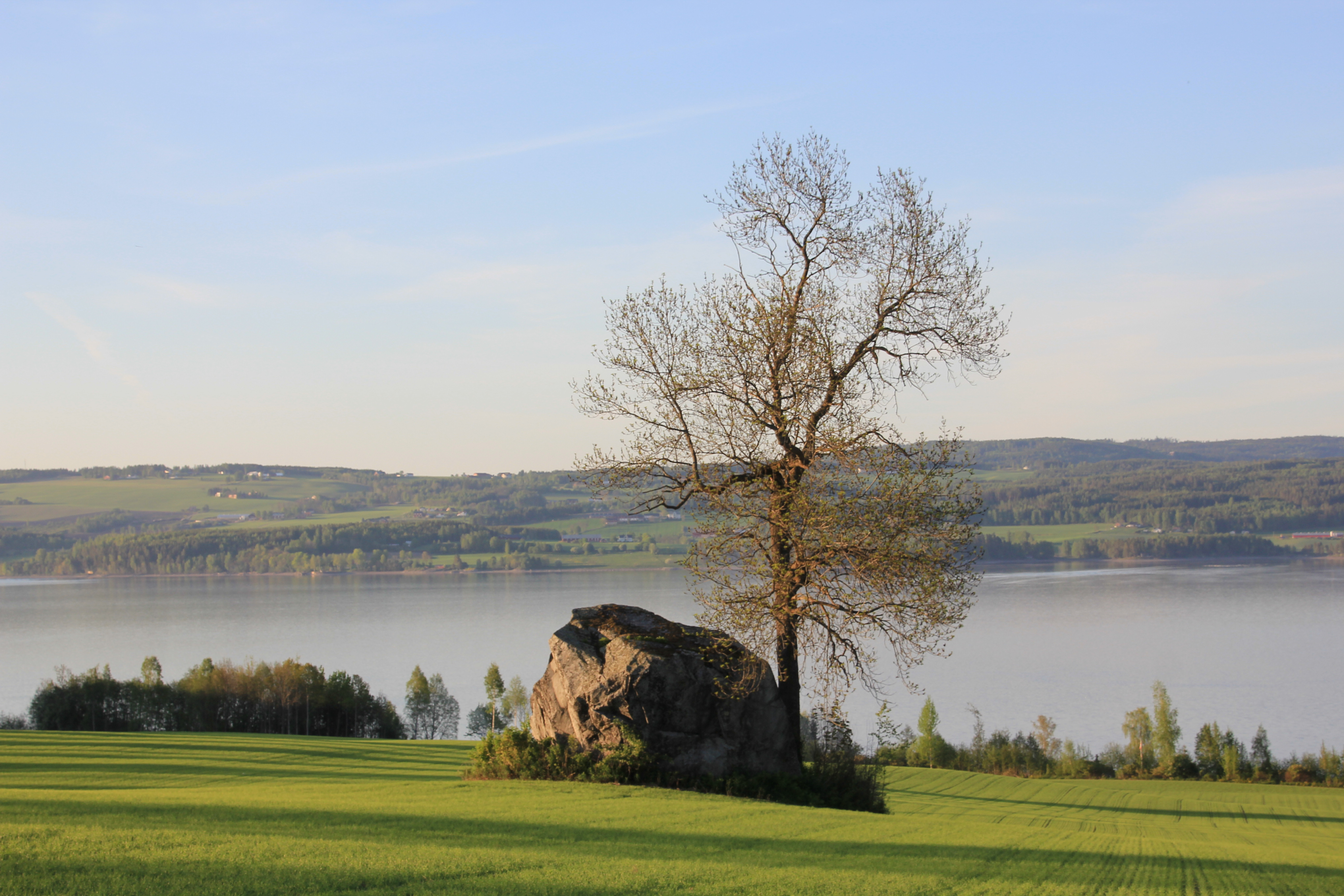 Gigant stone on a field at Nordlia, Østre Toten, Oppland Norway. Lake Mjøsa in the background. Kampesteinen ved Nordlia på Østre Toten.